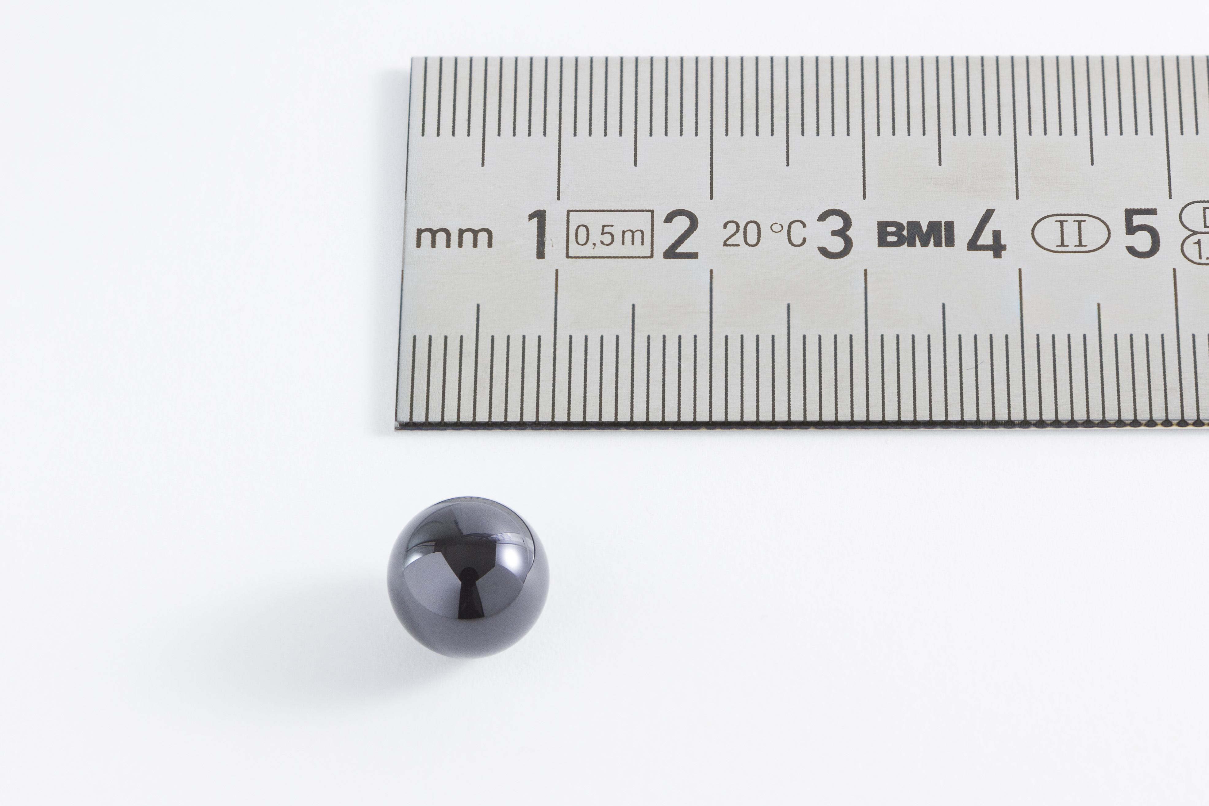 Bearing ball made of silicon nitride in diameter 10mm, Grade 10 (DIN 5401).